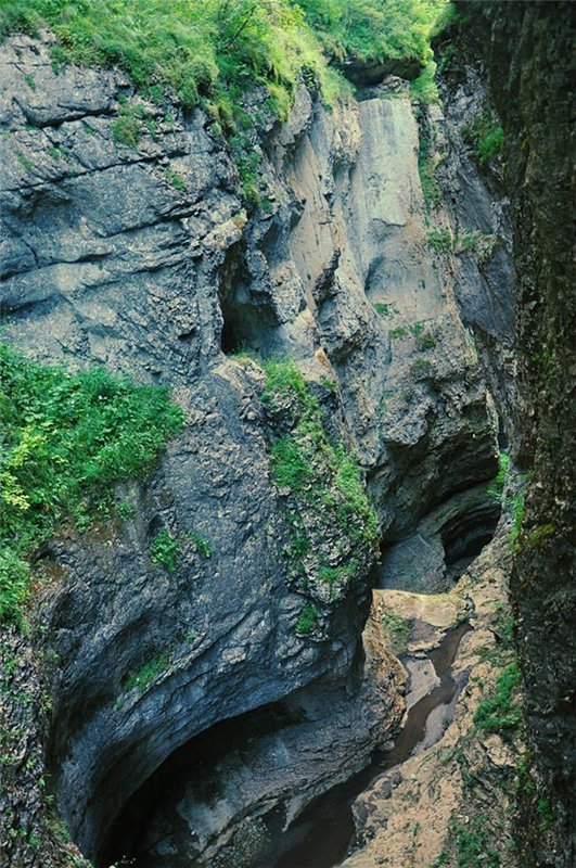 Kheori canyon, Oni Municipality, Georgia